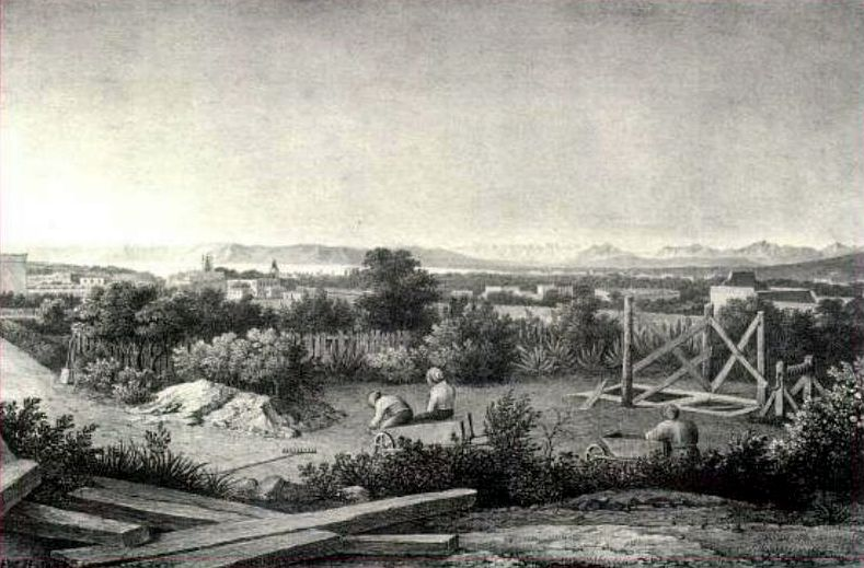 Camera lucida drawing of Ludwigsburg Botanic Garden in Cape Town, started by Baron von Ludwig about 1828